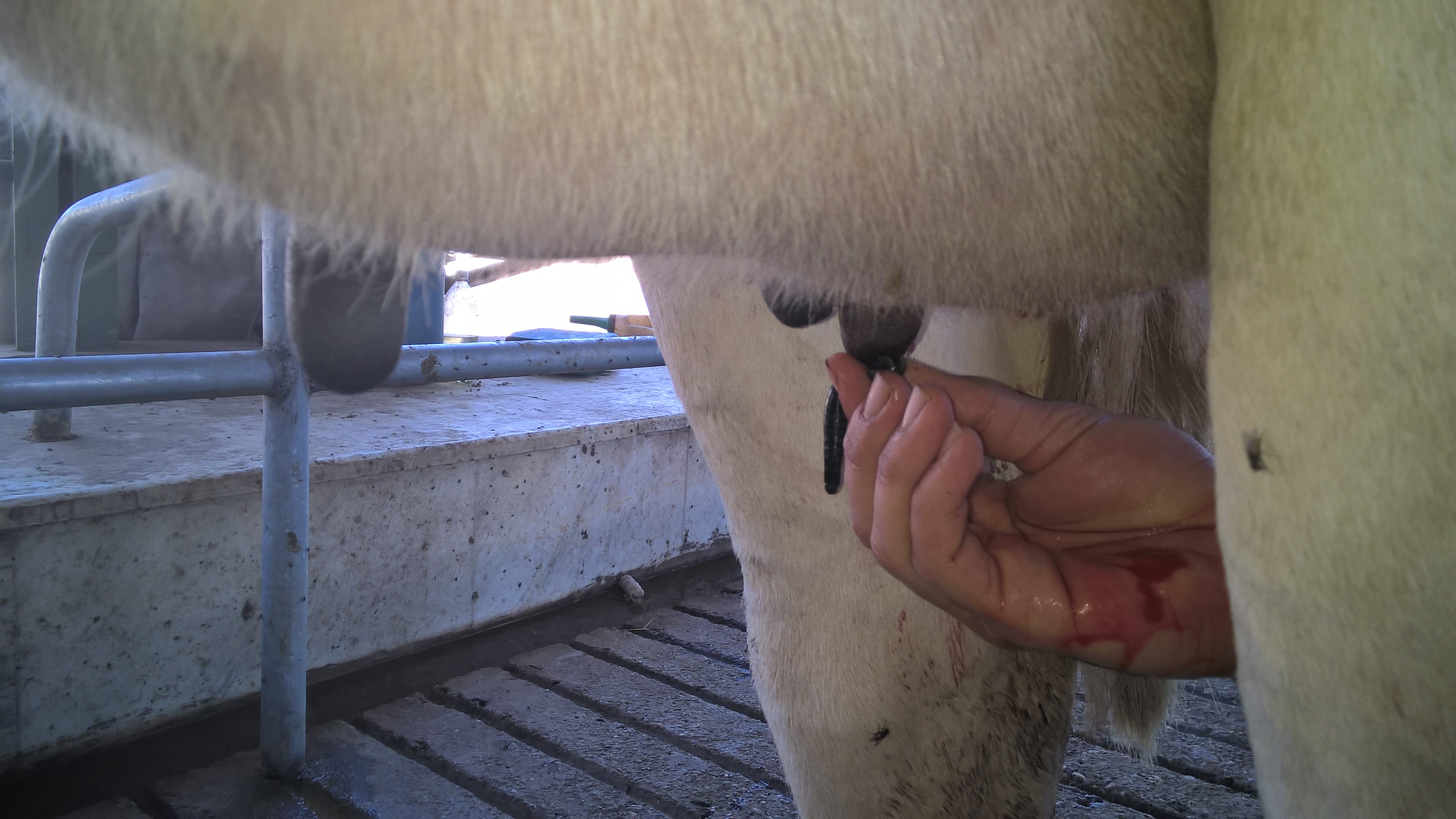 treating mastitis with leach